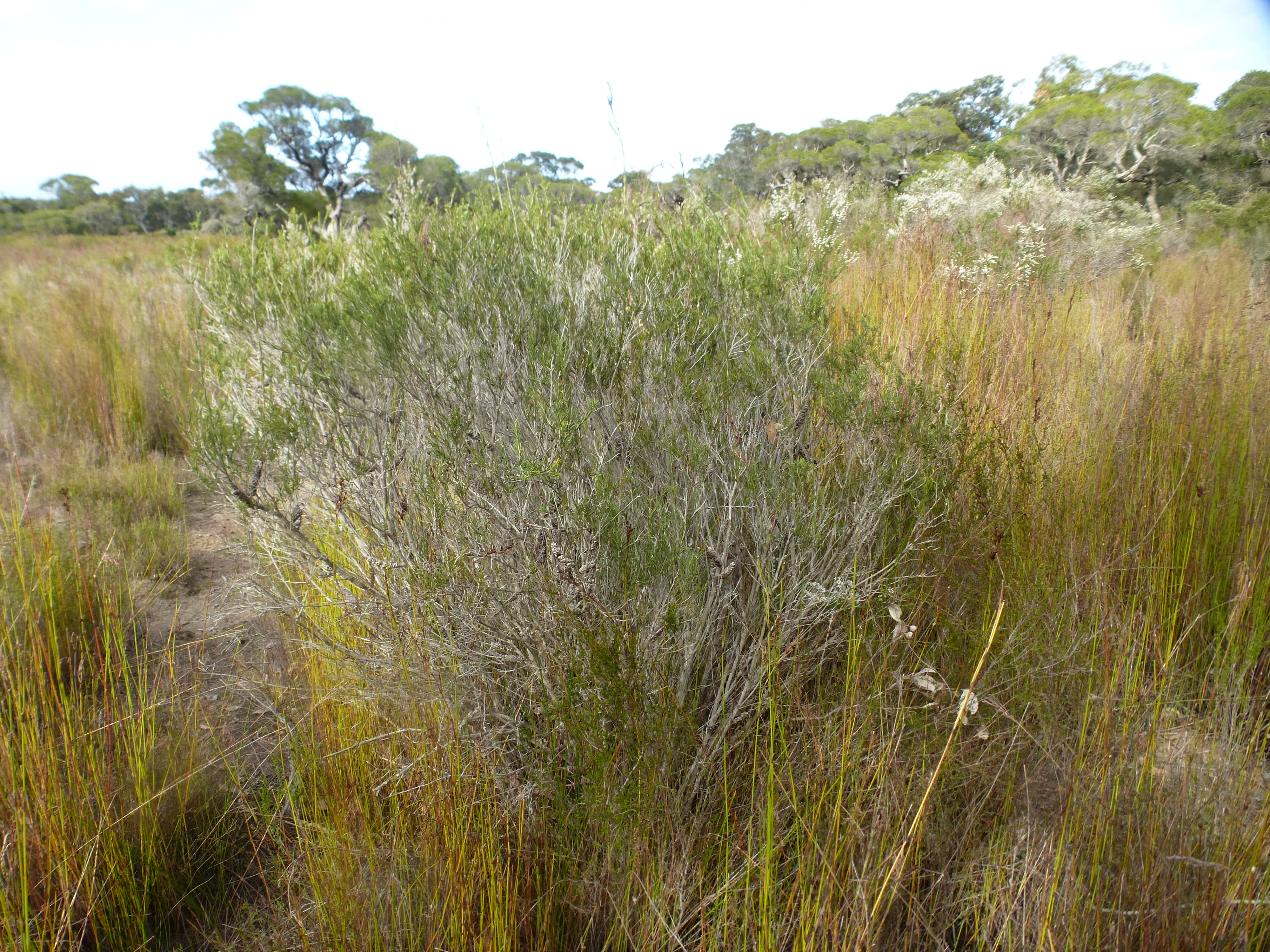 Melaleuca lateritia growing near Margaret River